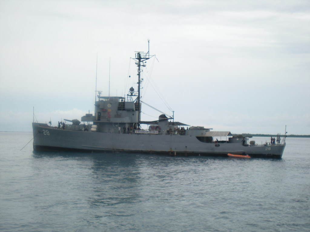 Philippine Navy ship BRP Cebu (PS-28) off Tabawan Island, Tawi-Taw, 27th June 2009